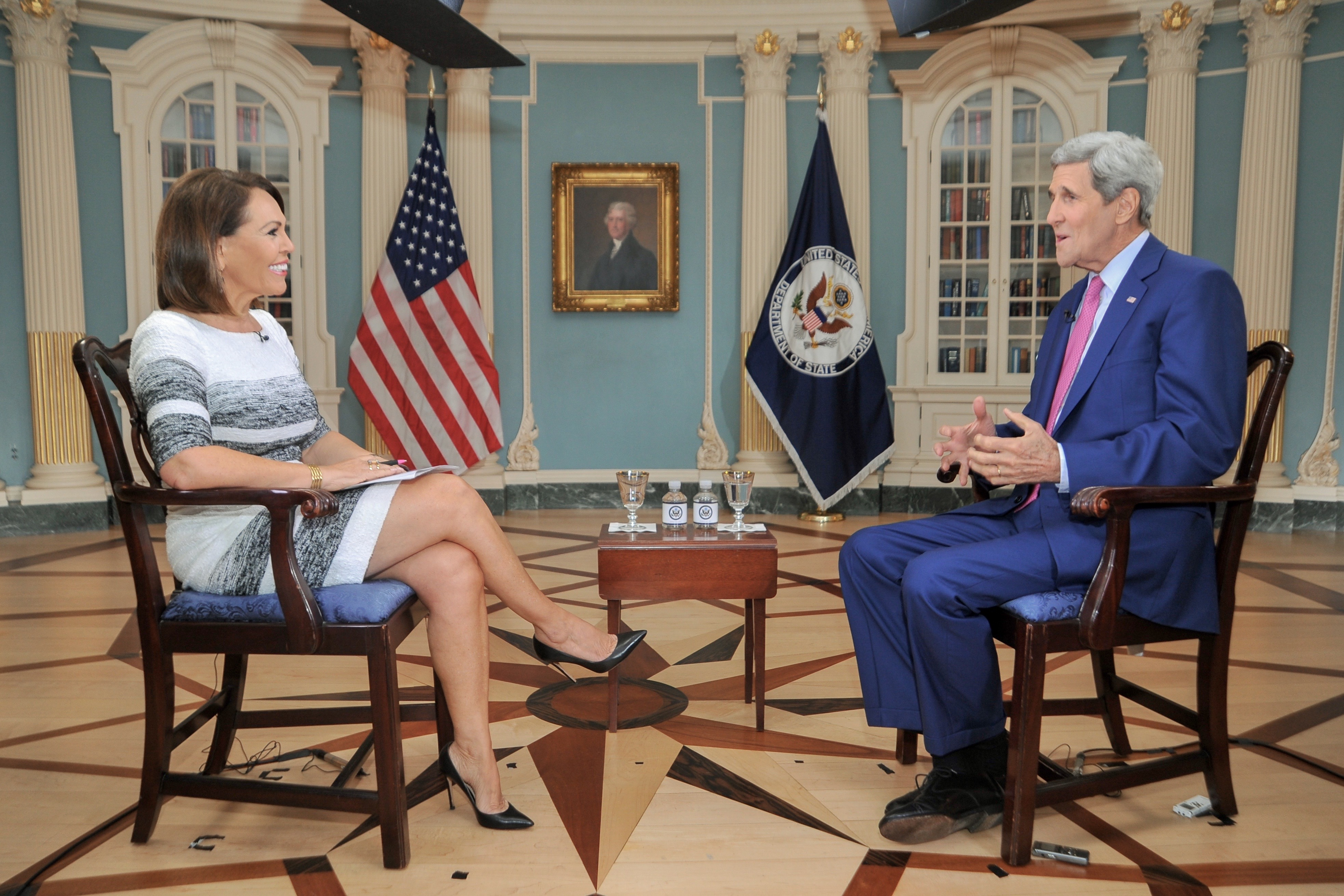 U.S. Secretary of State John Kerry speaks about the upcoming opening of the U.S. Embassy in Havana, Cuba, and broader Cuban and Latin American policy, during an interview with Univision's Maria Elena Salinas on August 12, 2015, in the Treaty Room at the U.S. Department of State in Washington, D.C. [State Department Photo/Public Domain]